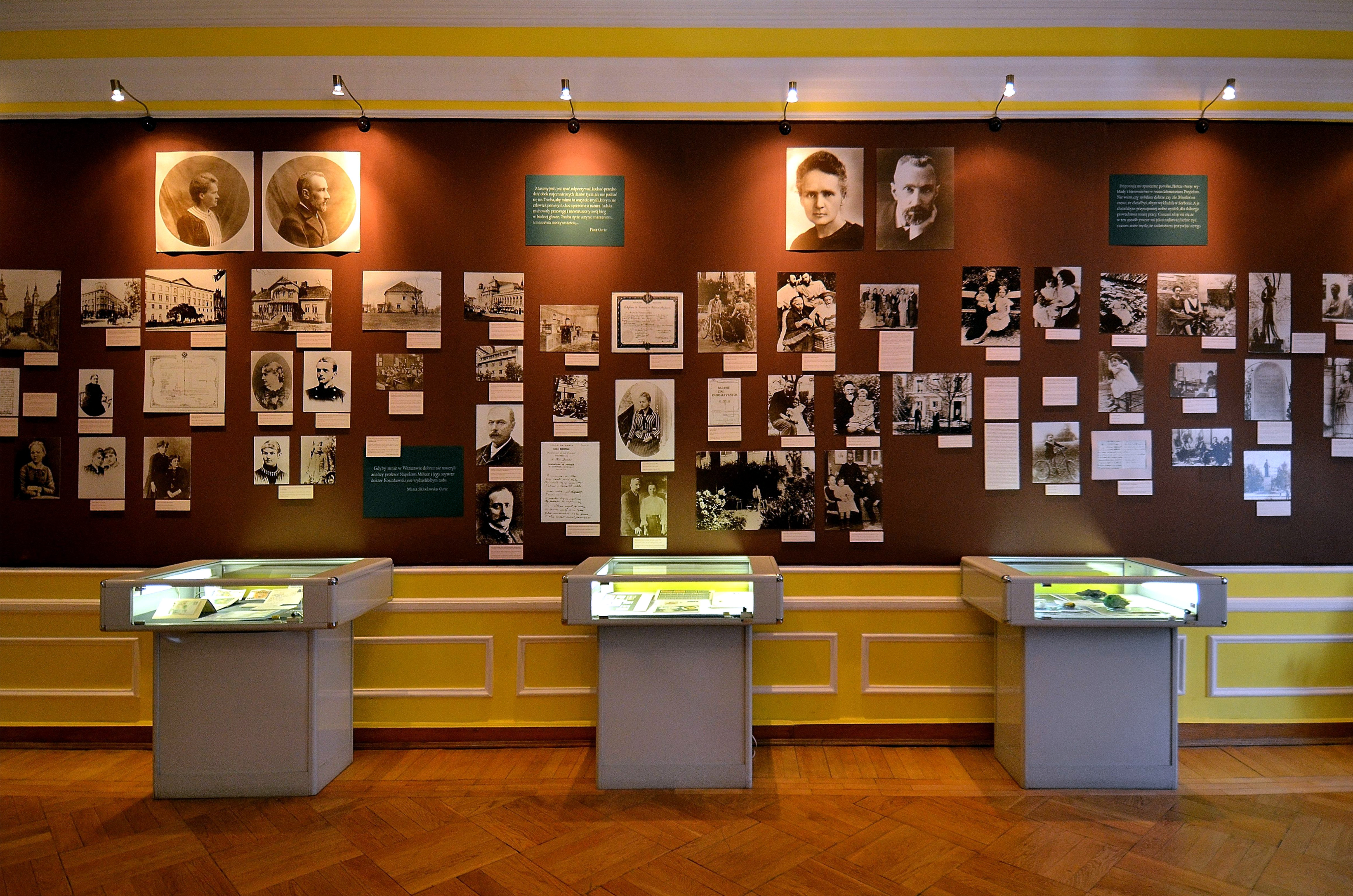 The photo collection at the Maria Skłodowska-Curie Museum in Warsaw